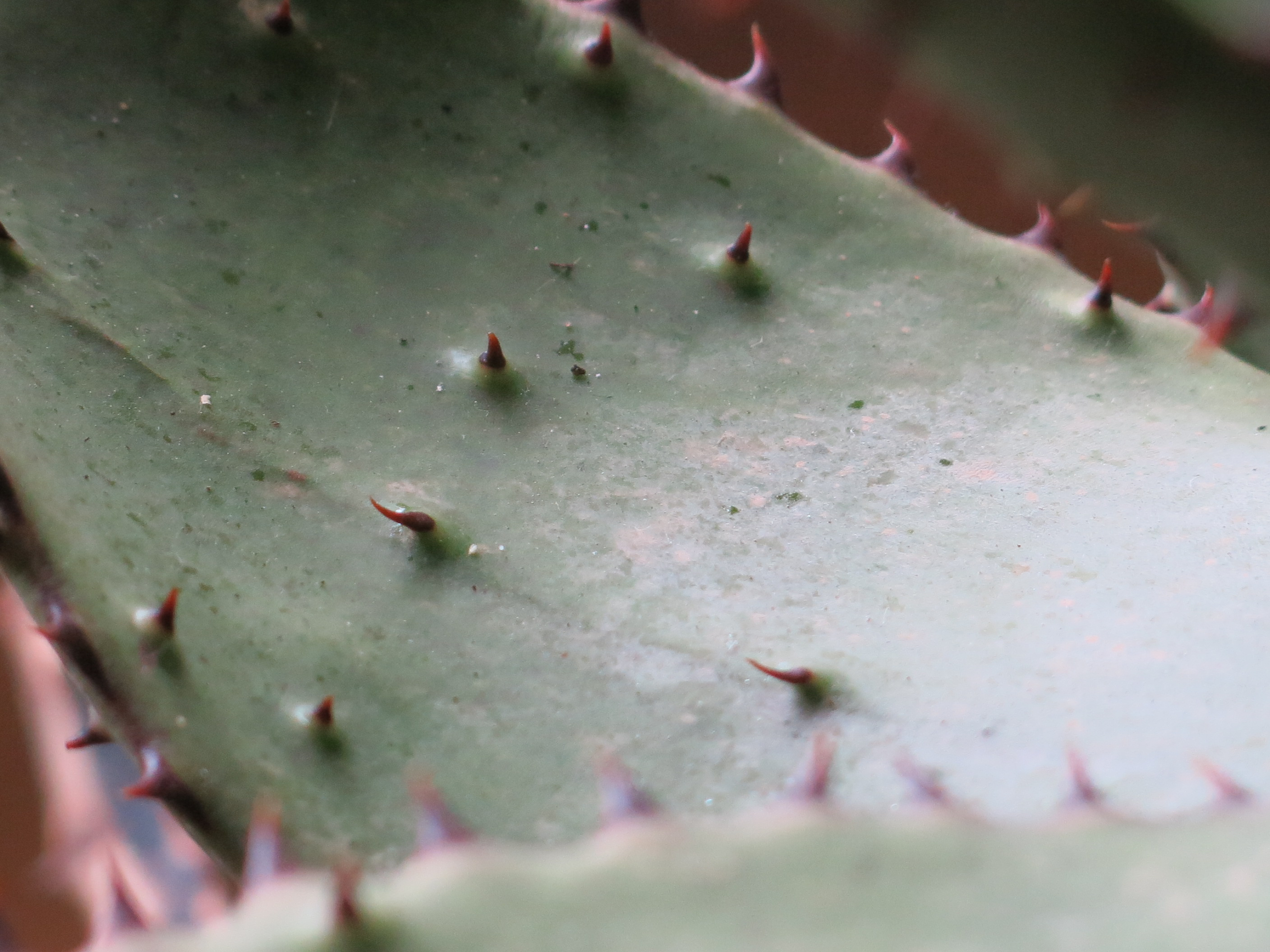 Aloe ferox in pot grown near Paris (France) : thorns on the inner side of a leaf (rare case in botany).